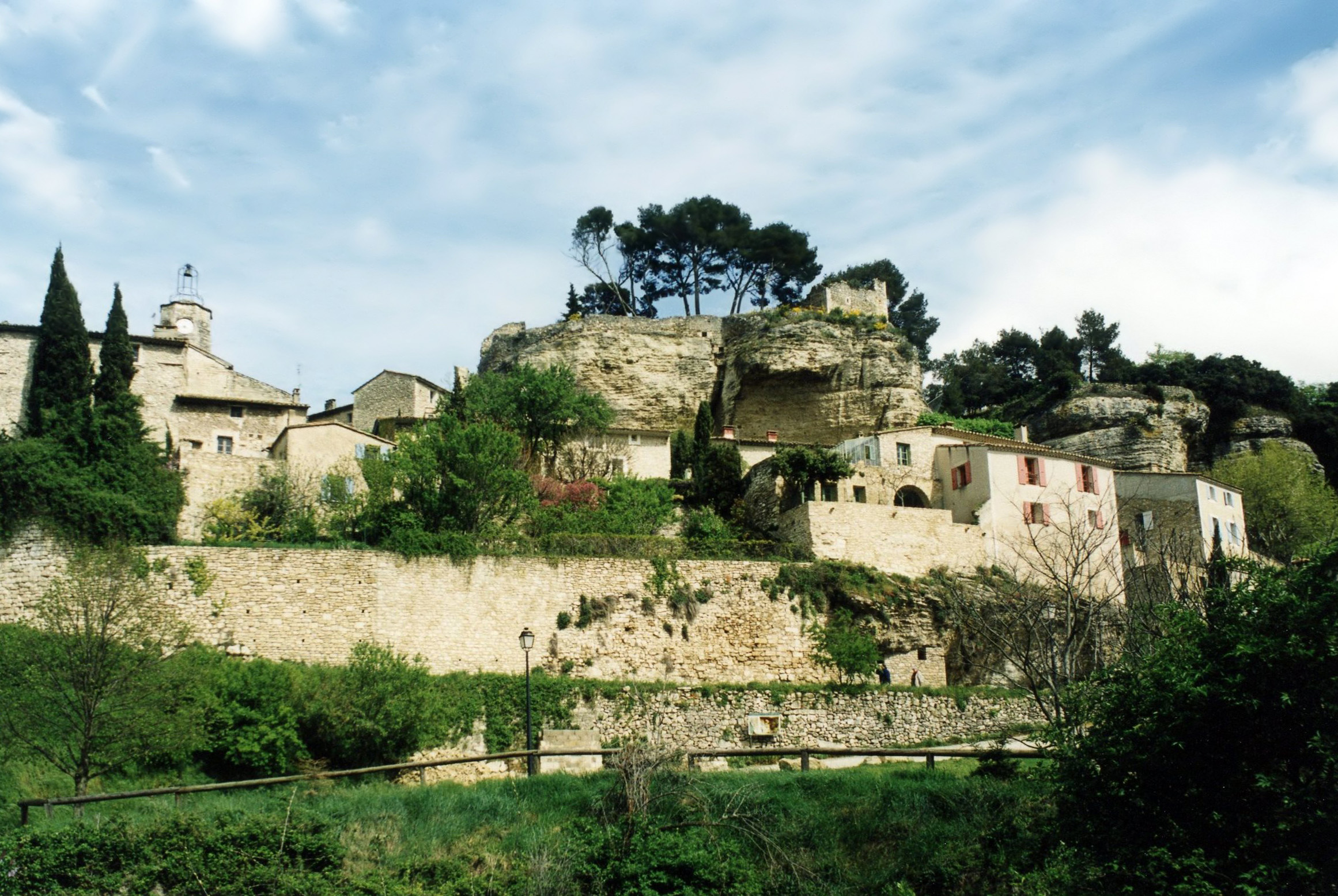 Le Beaucet, Vaucluse département, France